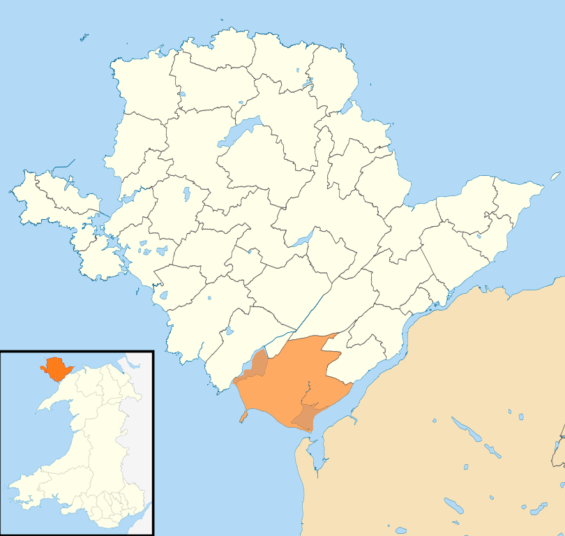 Location map of the community (civil parish) of Rhosyr in Ynys Môn / Anglesey, Wales.